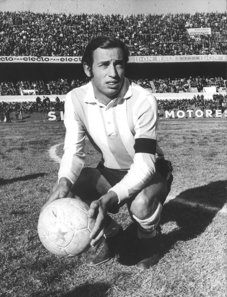 Argentine football player, Enrique Quique Wolff while playing for Racing Club.